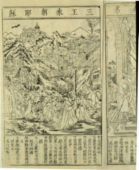 Giulio Aleni, T`ien-chu chiang-sheng ch`u-hsiang ching-chieh (History of the life of Christ, with illustrations) Chin-chian Fukien: The Chin-chiang Church, 1637